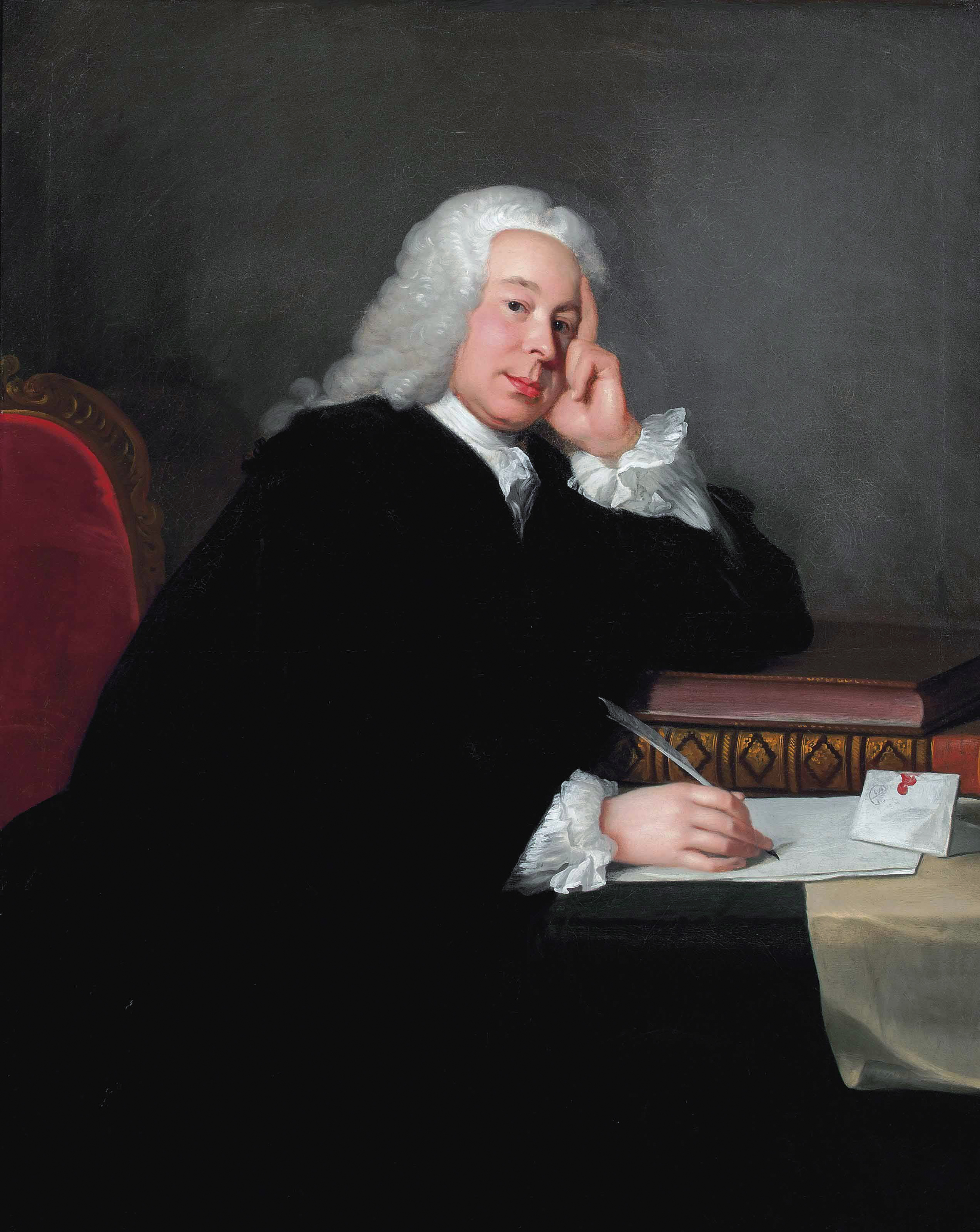 Nicholas Hardinge, M.P. (1699-1758) oil on canvas 127.6 x 102 cm